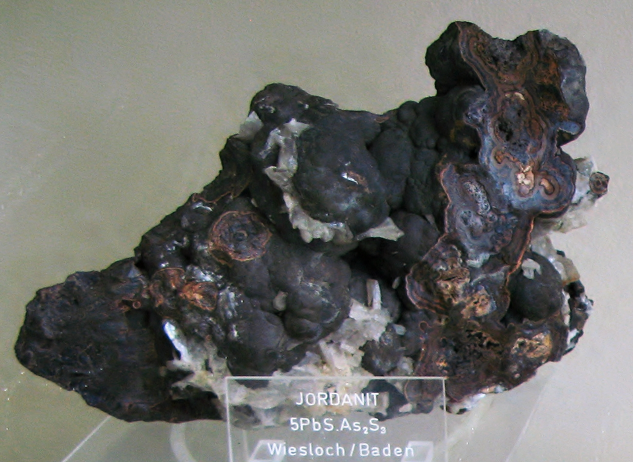 Jordanite - Locality: Wiesloch, Baden, Germany - Exposed in the Mineralogical Museum, Bonn, Germany